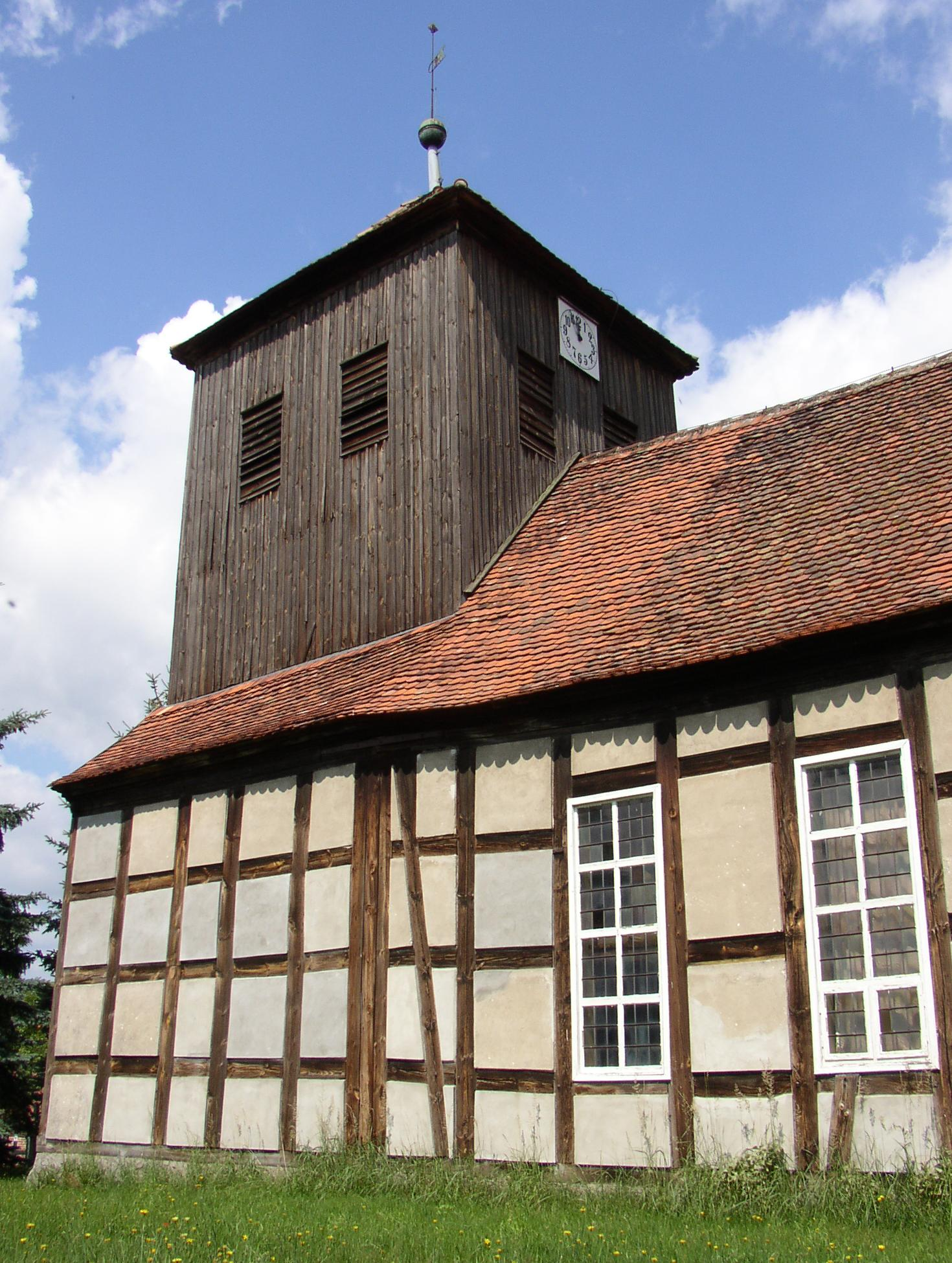 Church in Görne in Brandenburg, Germany